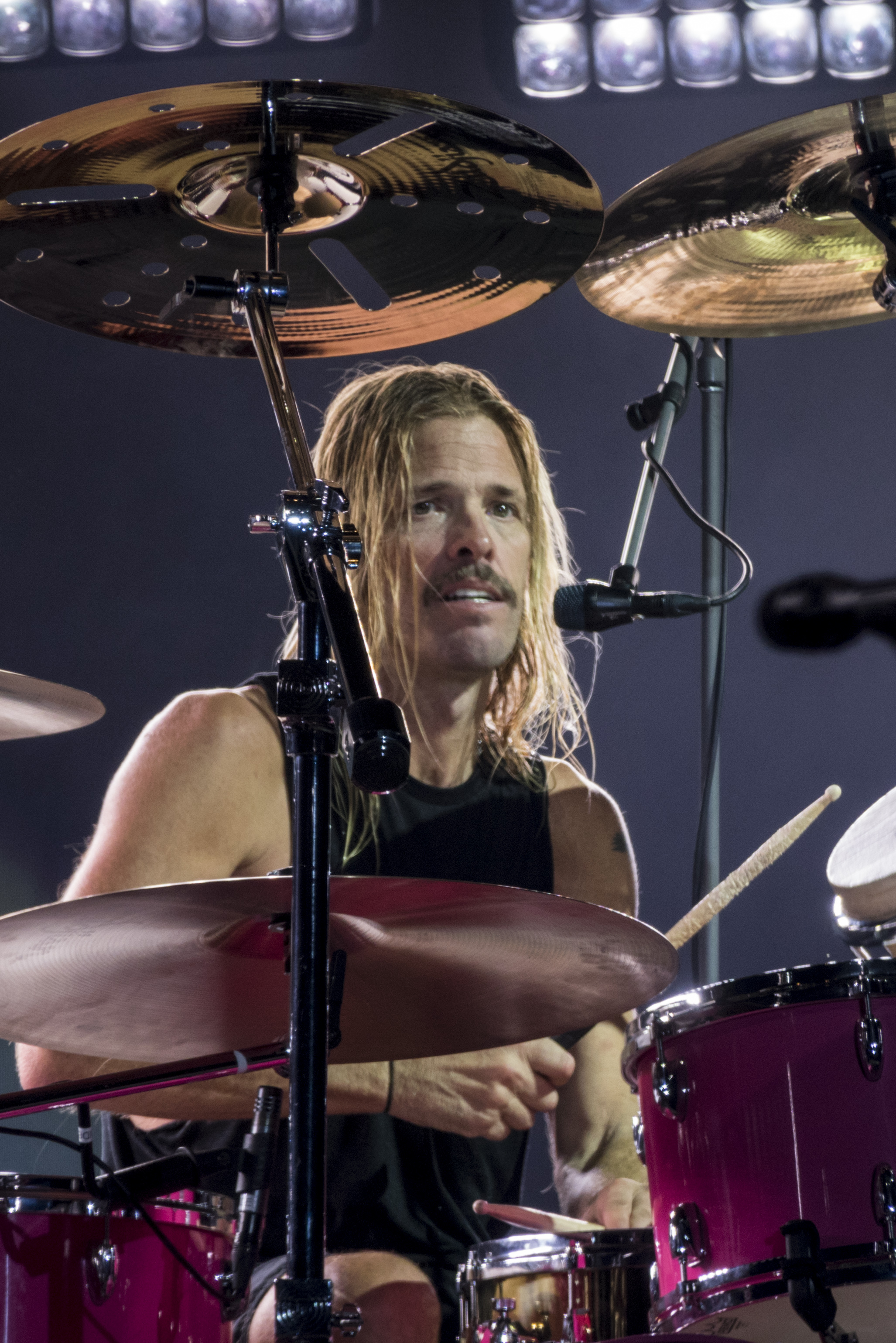 Performance of American rock band Foo Fighters at Lollapalooza Berlin 2017.